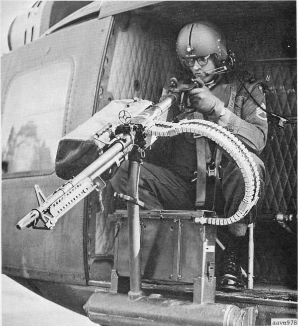 Picture of door gunner with the XM23 Subsystem